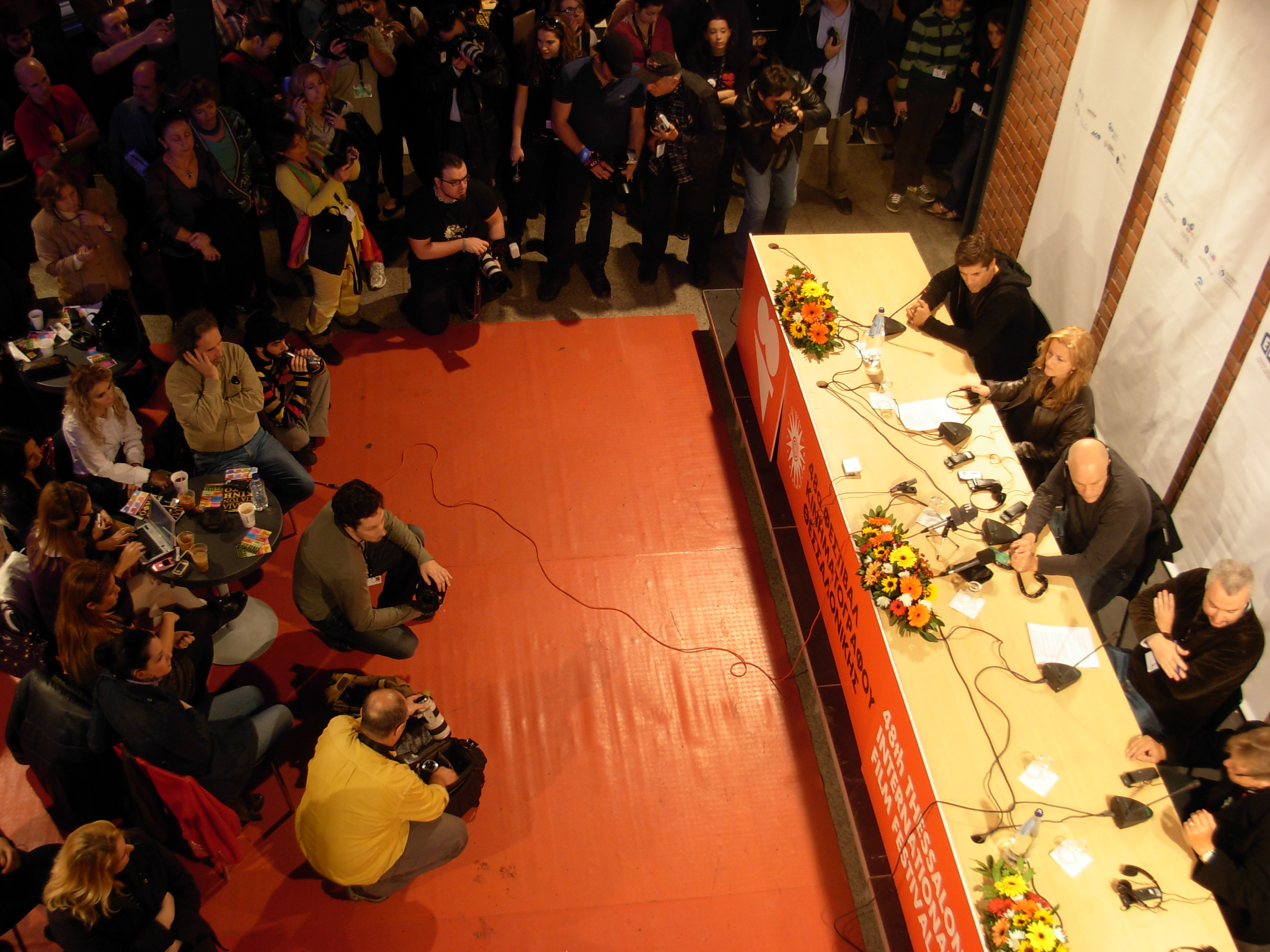 Press conference with John Malkovich, the president of the festival George Corraface and the vice president and festival director Despina Mouzaki at the Thessaloniki International Film Festival in 2007.